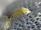 Stictoleptura scutellata Detail of female ScutellumRicoh R8